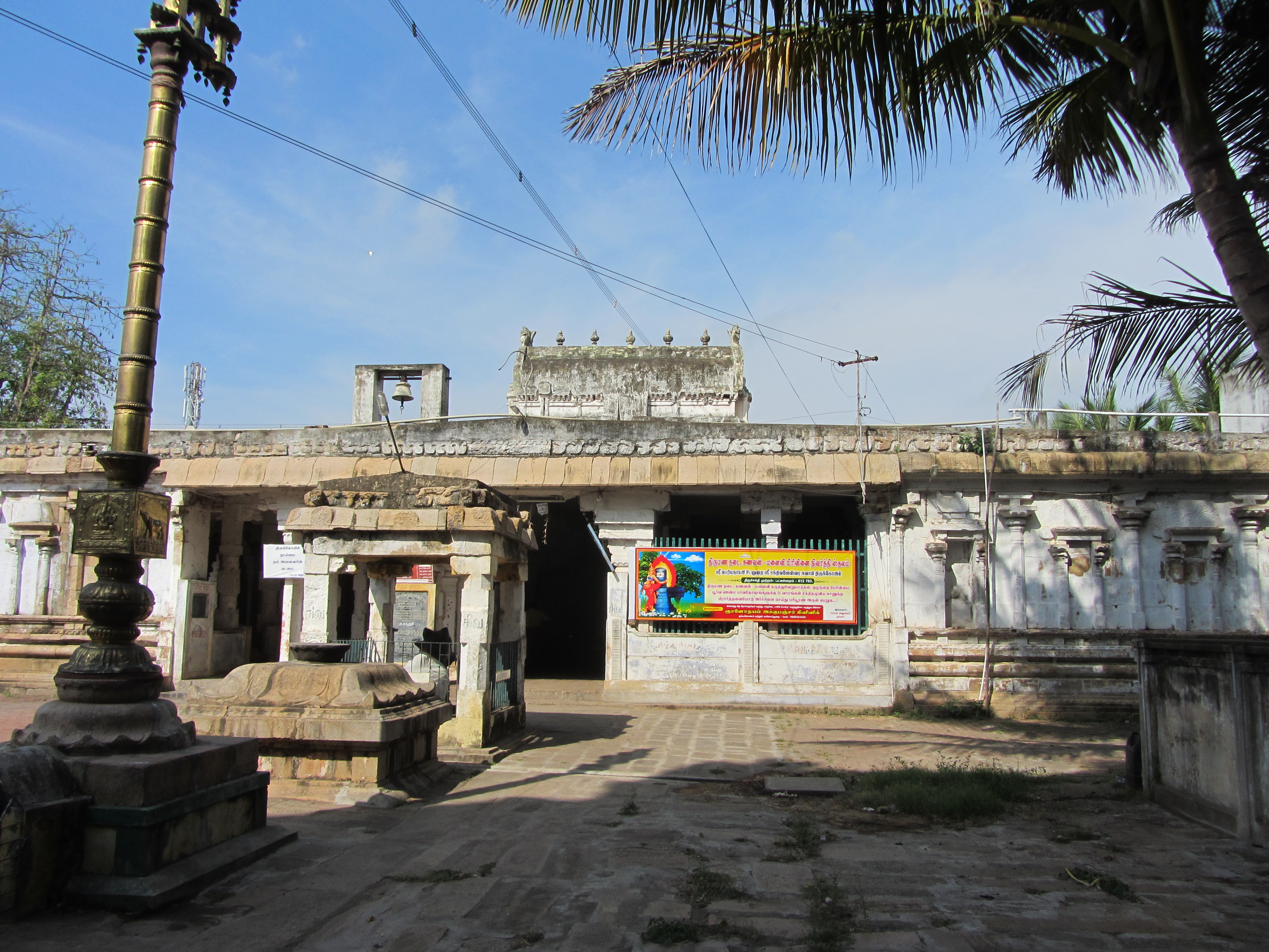 Thirusakthi mutram temple is famous for matrimonial harmony and for marriage.